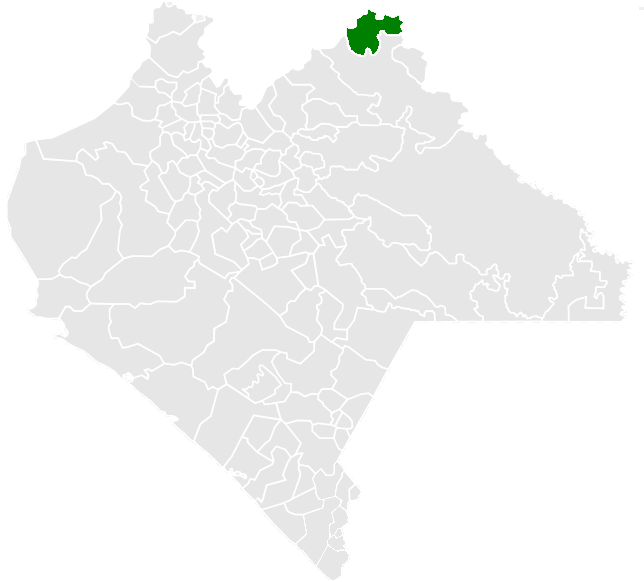 Map of the Municipalty of Catazajá in the State of Chiapas, México.